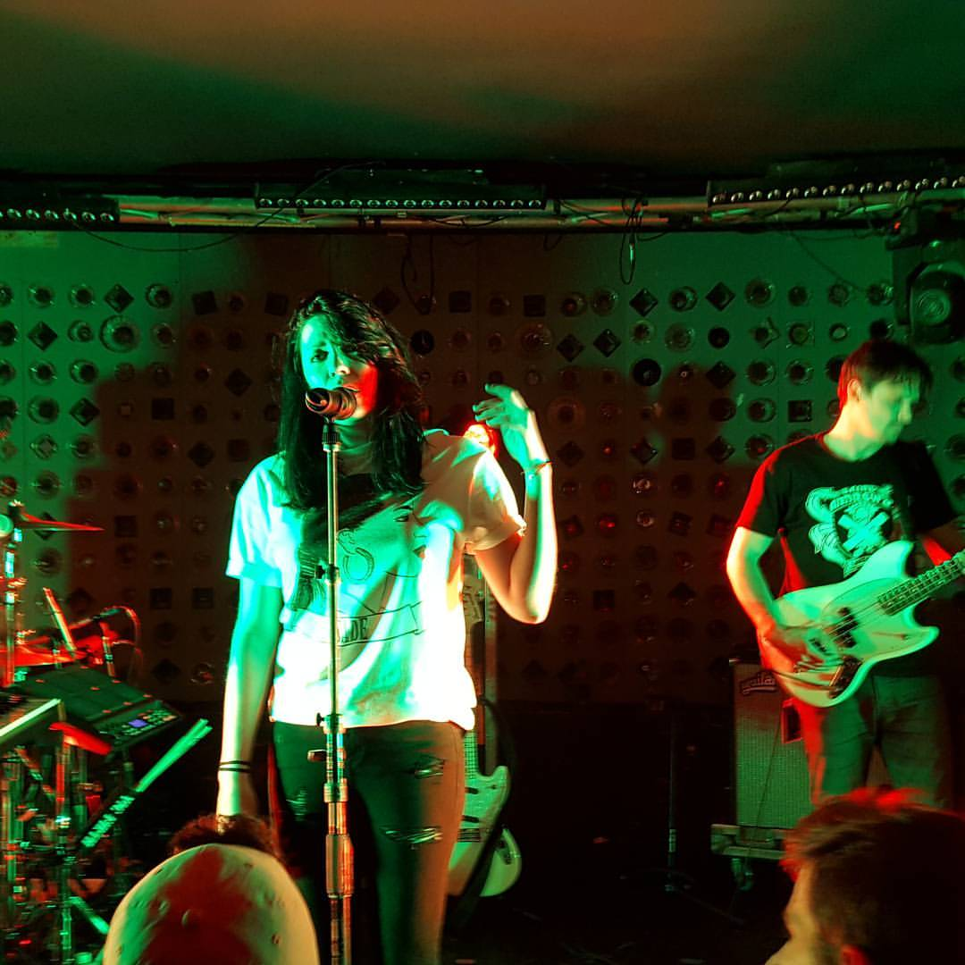 K.Flay performing in South Williamsburg in November 2016